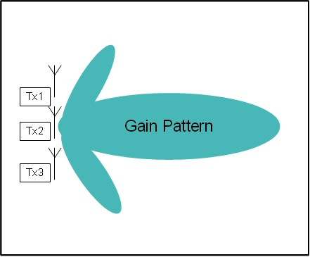 An antenna gain pattern created by adjusting phase and gain of each individual antenna.